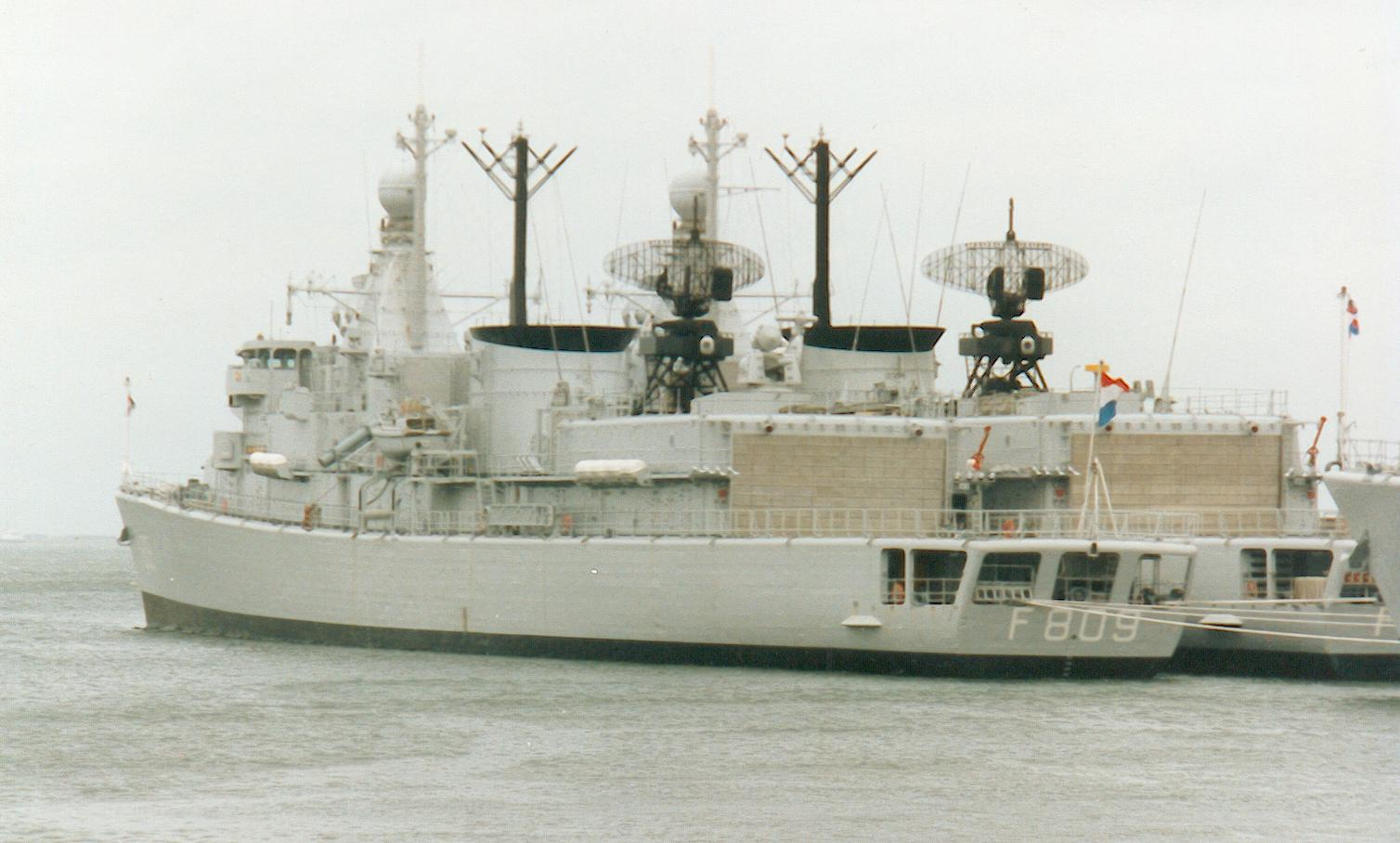 Dutch kortenaer-class figate Van Kinsbergen in the harbour of Den Helder